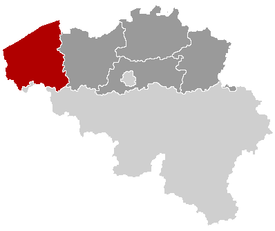 Map of Province of West Flanders